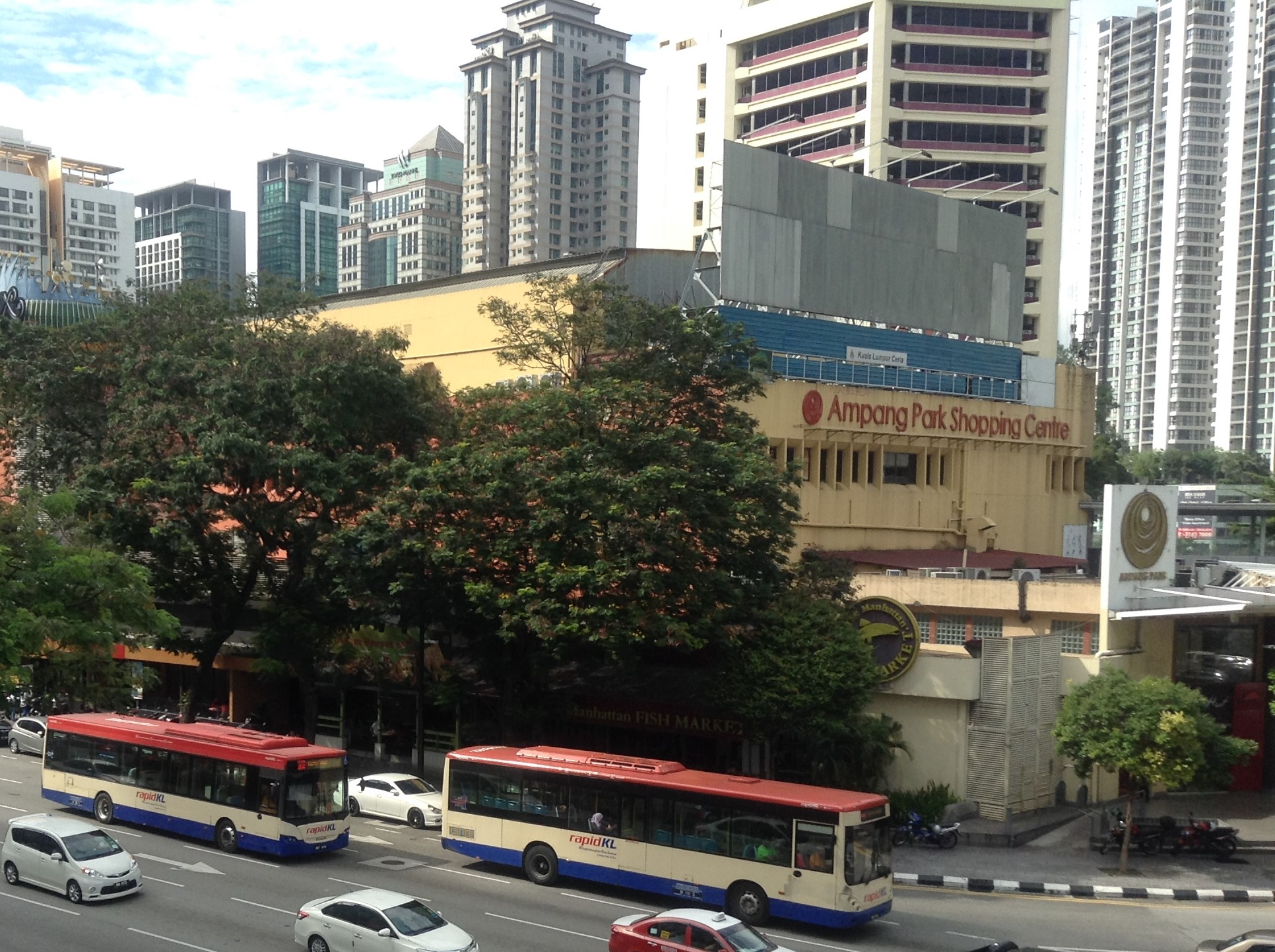 This is about few days before Ampang Park Closed